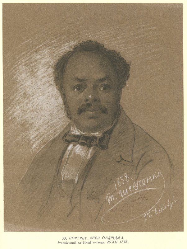 'Ira Aldridge'. By Taras Shevchenko. December, 25. 1858, in St. Petersburg.